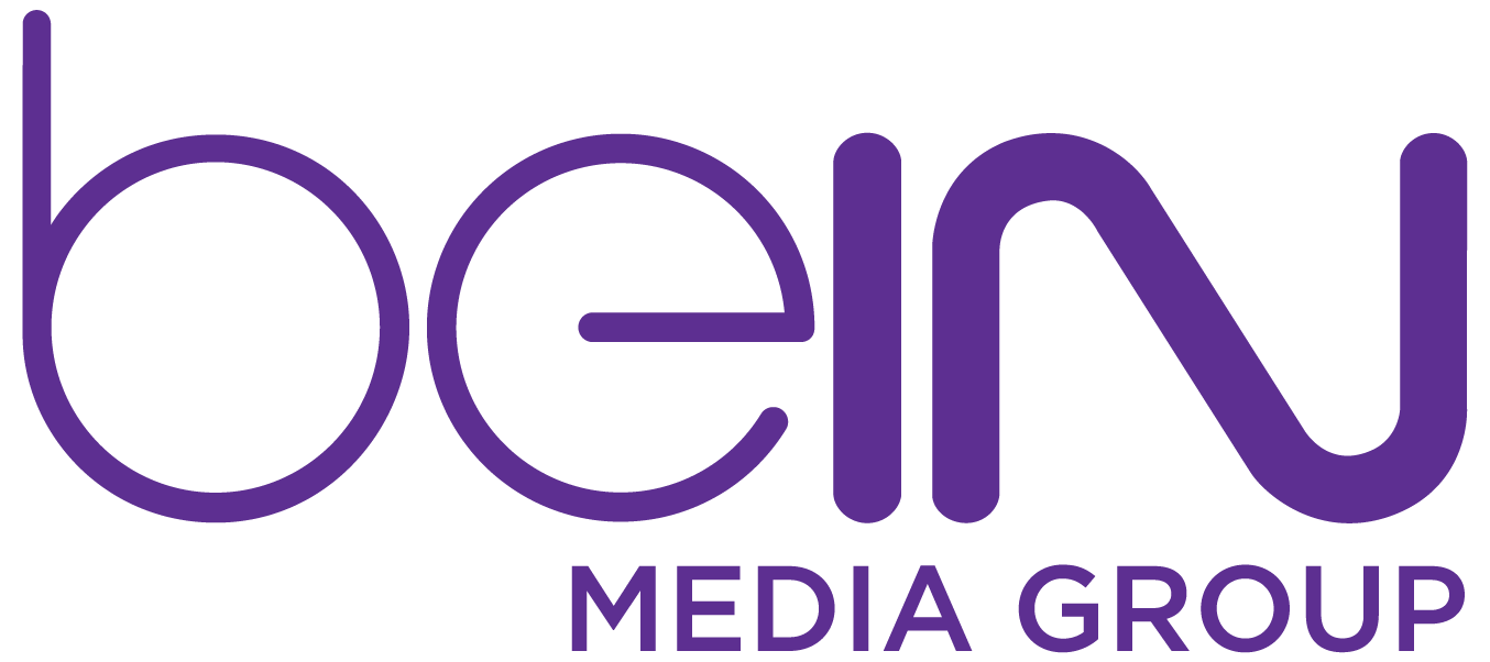 The logo for BeIn Media Group